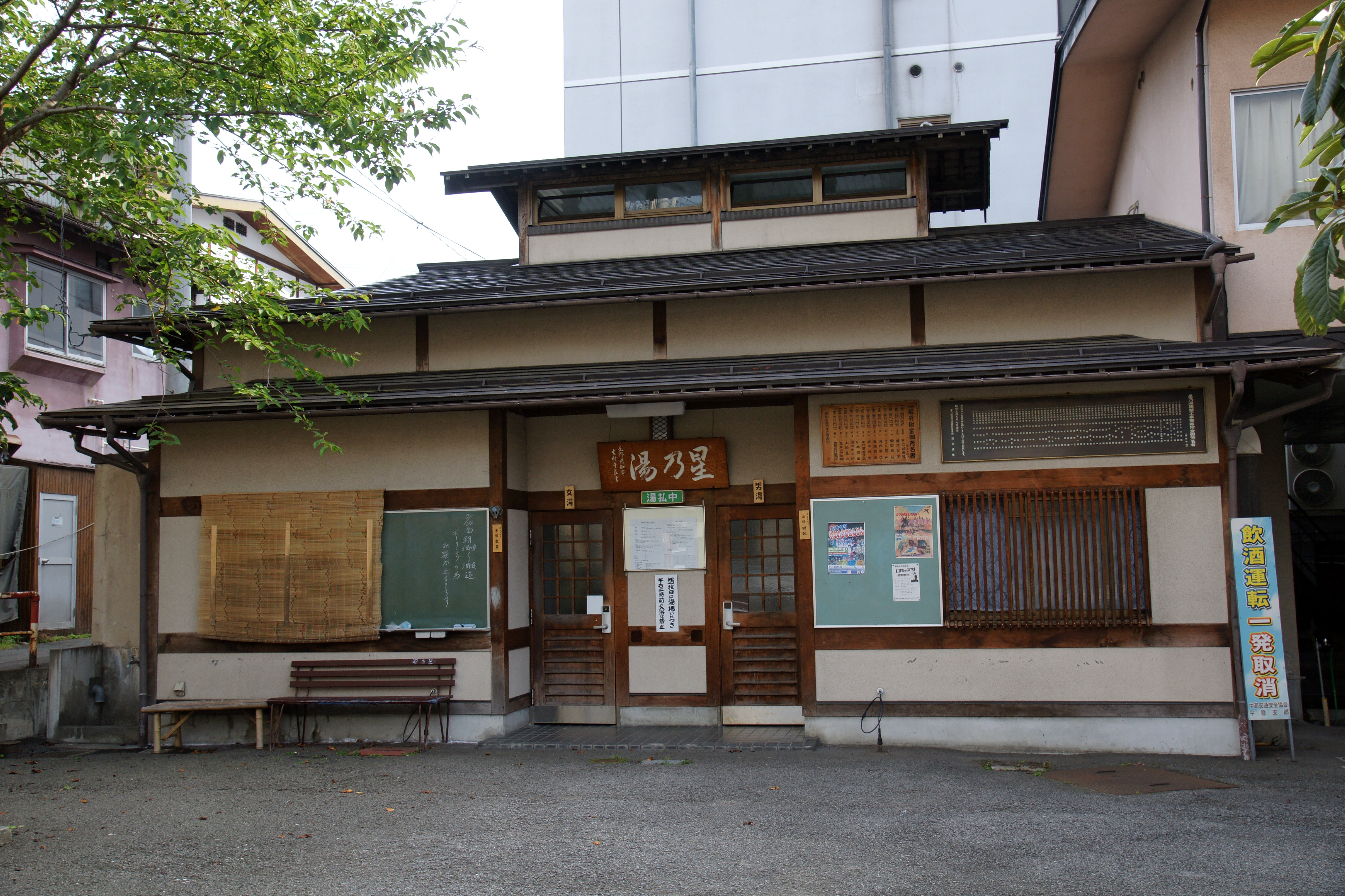 Hoshikawa Onsen ,Yamanouchi, Nagano prefecture, Japan